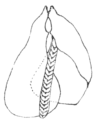 Drawing of the jaws of Fiona pinnata. There is radula between them.